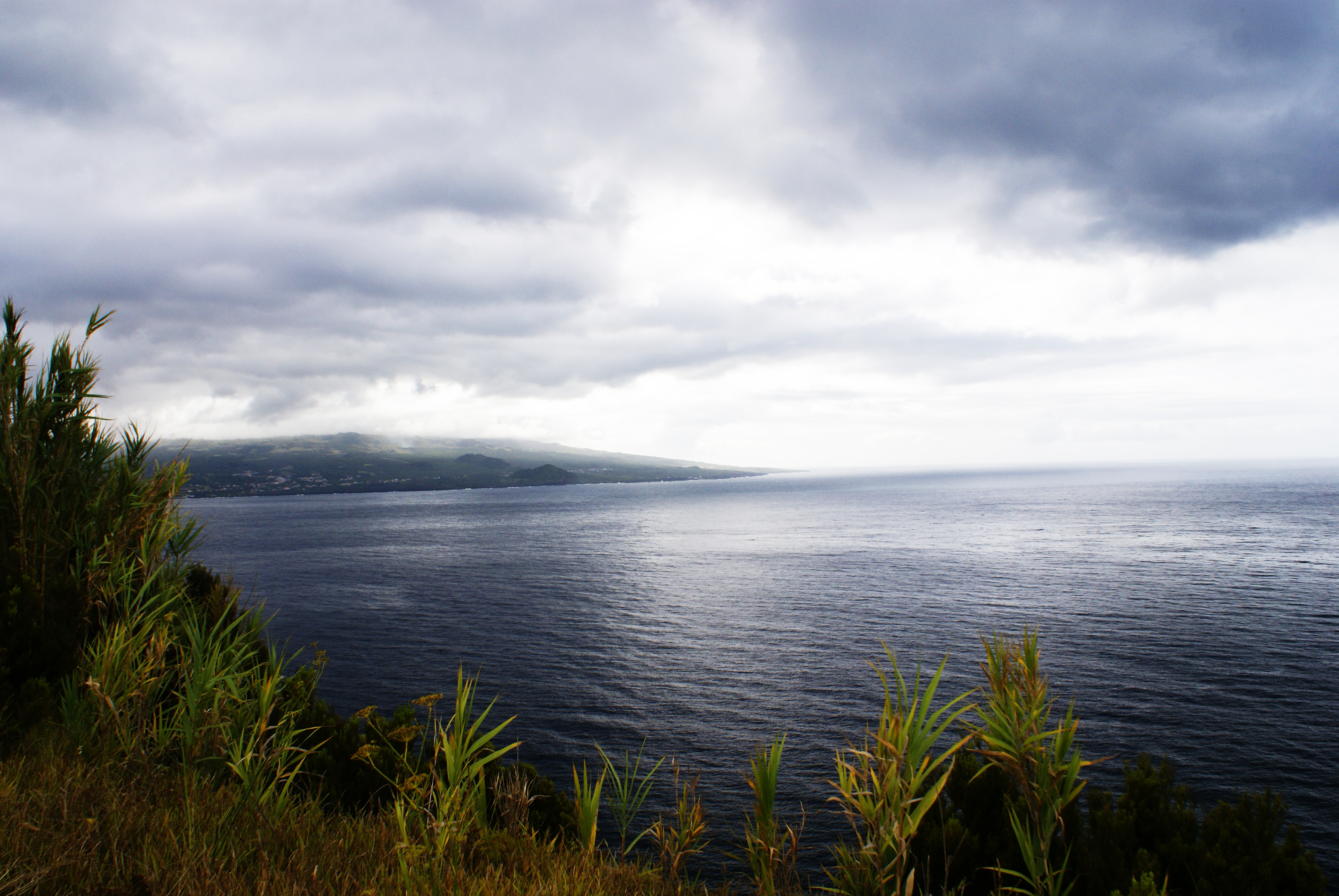 Vista do Monte da Espalamaca, a ilha do Pico do outro lado do Canal, concelho da Horta, ilha do Faial, Açores, Portugal